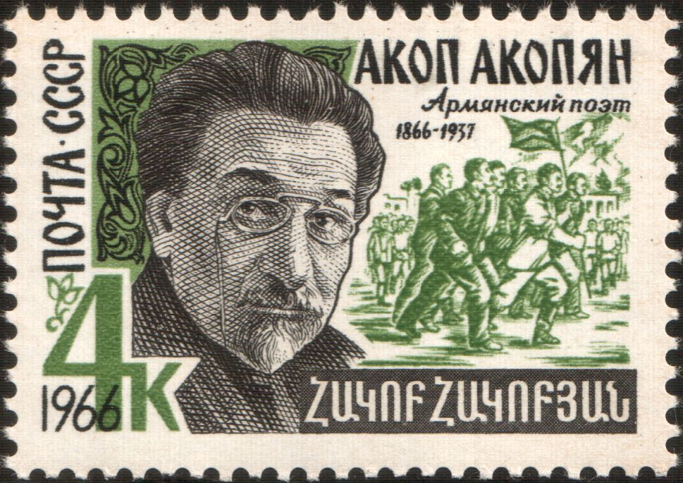 Birth Centenary of Akob Akopyan